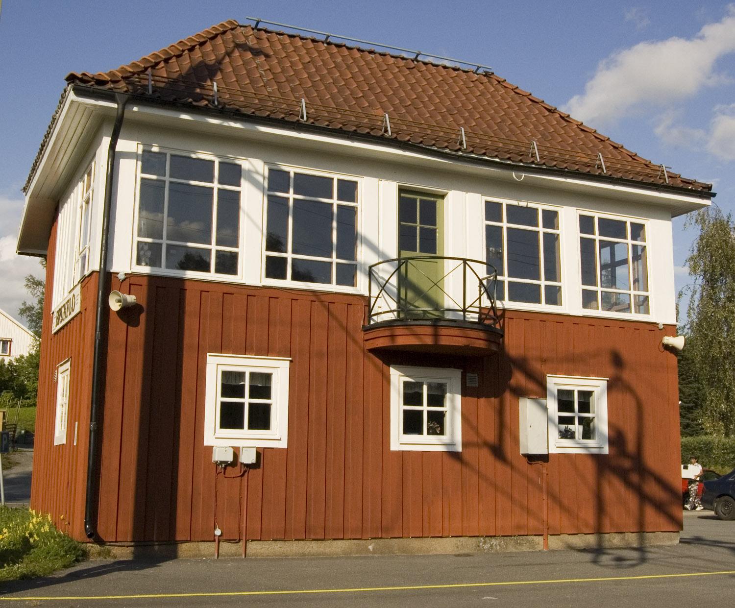 Signal box at Brunflo railway station, Sweden.